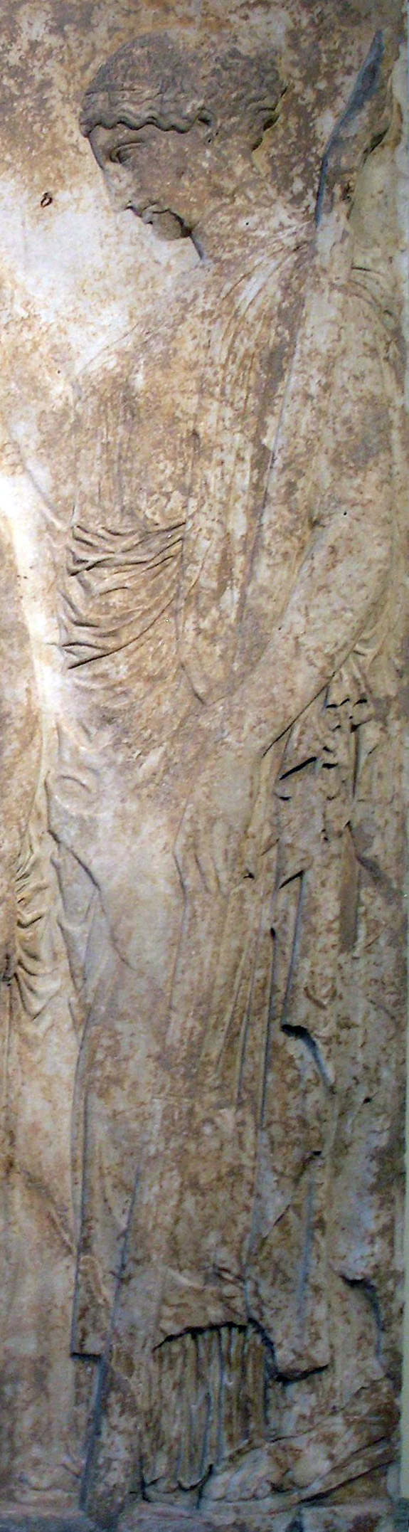 The goddess Persephone. Detail of the great Eleusinian relief in the National Archaeological Museum in Athens. Photograph by Marsyas 09:19, 14 March 2006 (UTC)